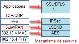 Stack 6LowPAN with security